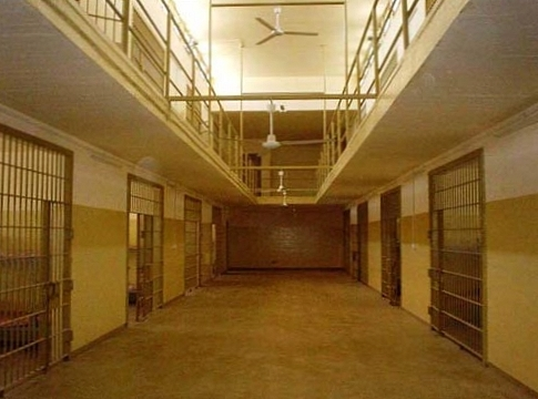 A Review of ICITAP's Screening Procedures for Contractors Sent to Iraq as Correctional Advisors, February 2005, Exhibit 5b: Photograph of Abu Ghraib Cell Block After Reconstruction, The Office of the Inspector General (OIG) in the U.S. Department of Justice (DOJ)